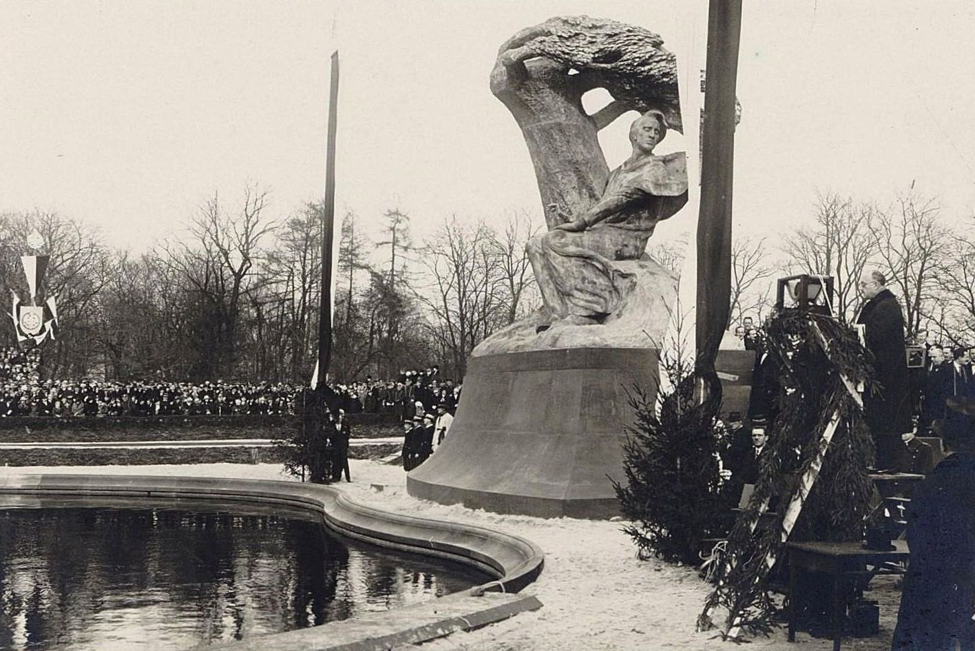 Ceremony of unveiling of Frederick Chopin monument in Warsaw on 14th November 1926